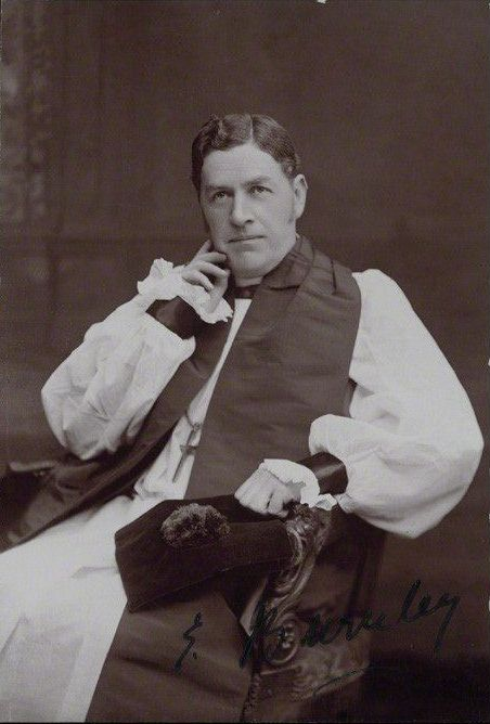 Carte de visite photo by N.S. Kay, of Sir Edwyn Hoskyns 12th Baronet (1851-1925), Bishop of Southwell, England.